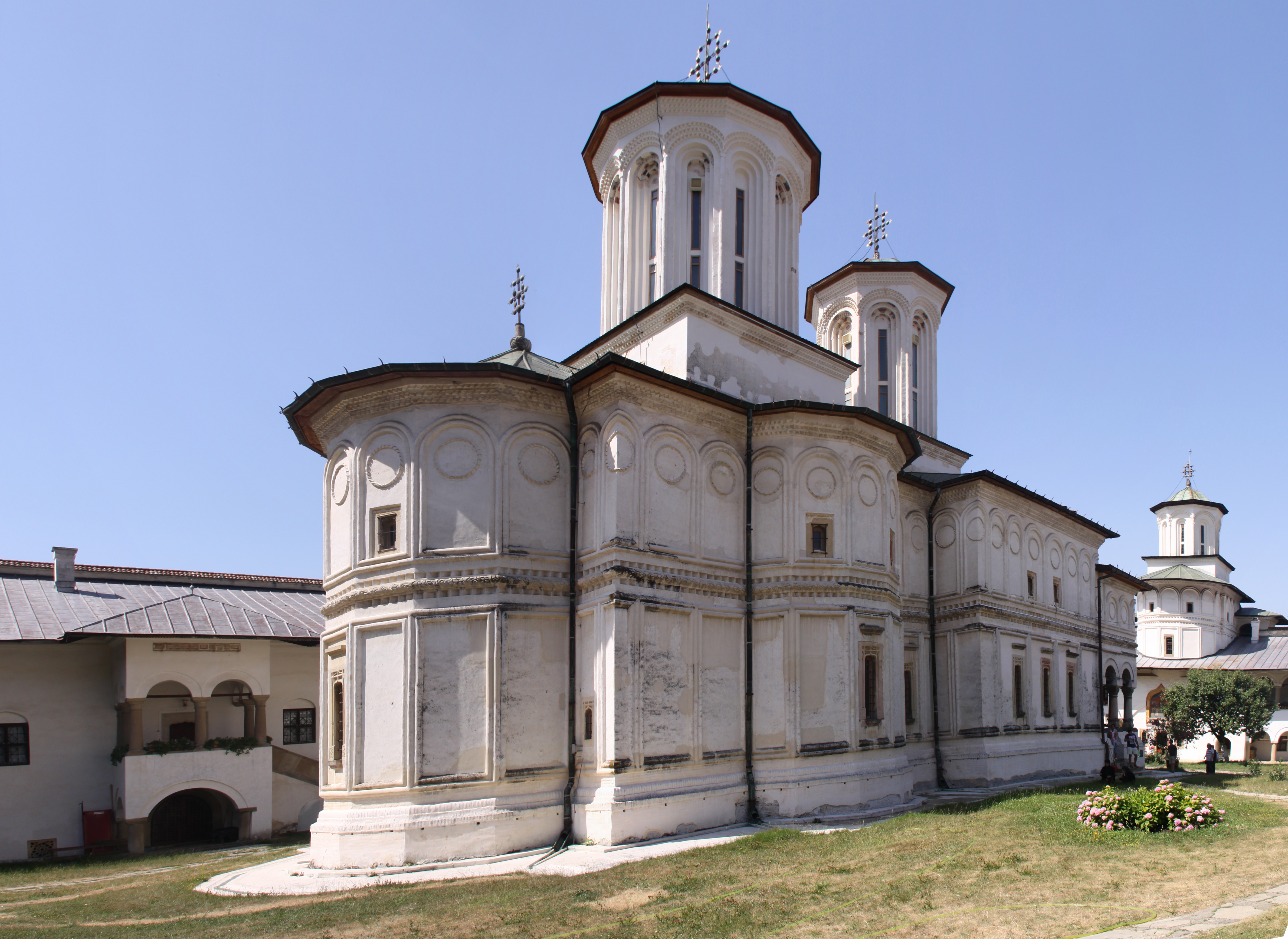 Horezu Monastery, Vâlcea county, Romania: the main church.